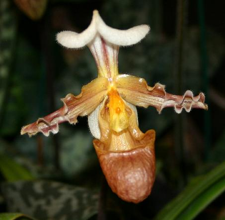 Paphiopedilum tranlienianum